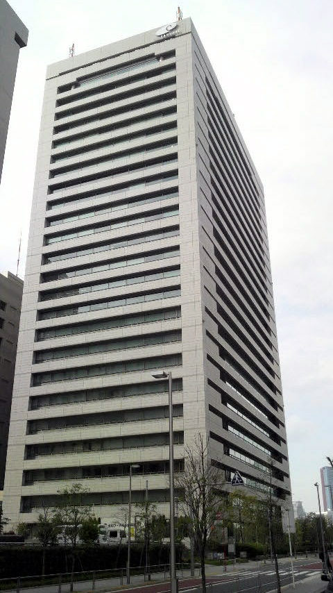 shinagawa Twins Annex